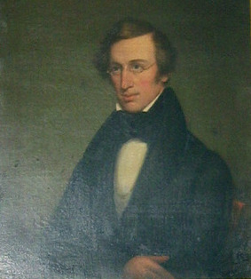 Portrait of Henry Noble Day (1808-1890), American philosopher